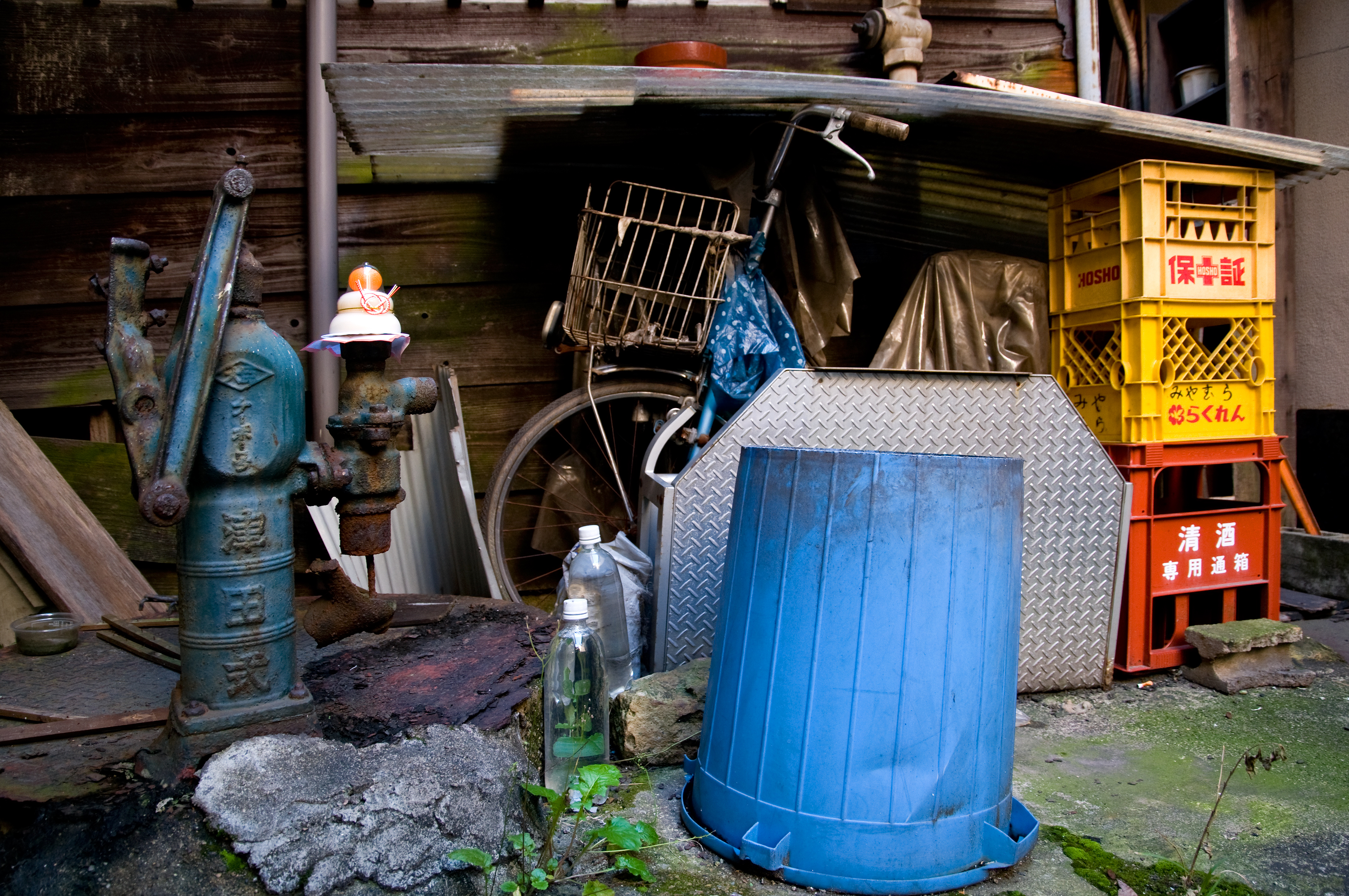 A house in Temma, Kita-ku, Osaka. Nikon D300 + AF-S DX Nikkor 16-85mm f/3.5-5.6G ED VR